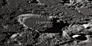 Epigenes lunar crater as seen from Earth with satellite craters labeled